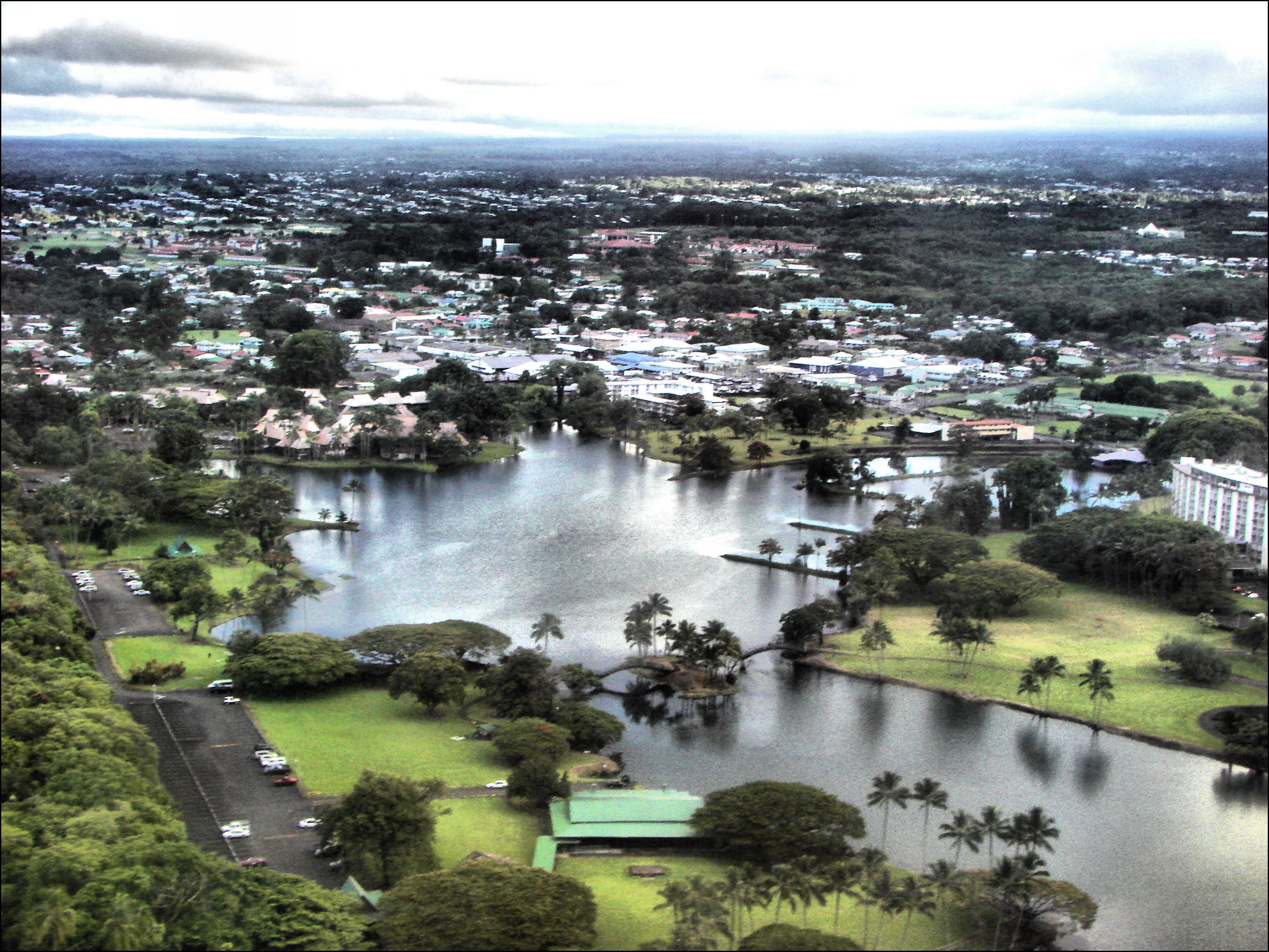 from a Hawaiian Airlines plane - There are no tall buildings here...We love it that way